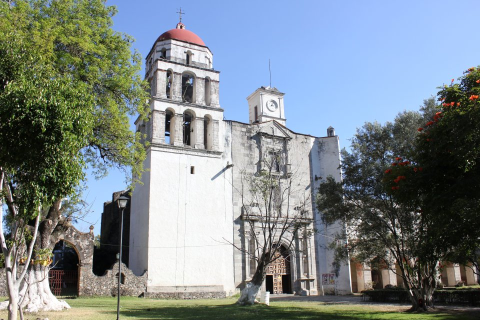 Main church